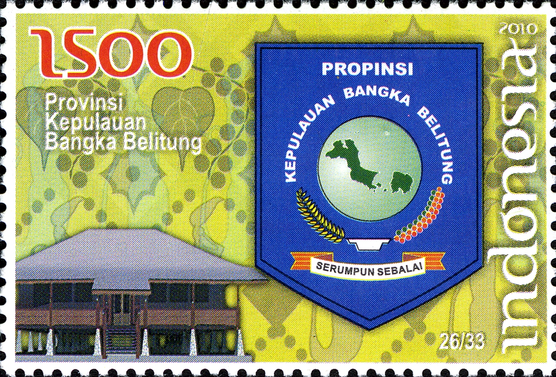 Stamps of Indonesia